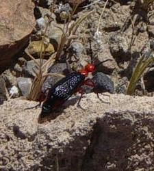 Photograph of a Blister beetle (Lytta magister) above Mesquite Springs in Death Valley National Park. See also: Asian multicolored lady beetle